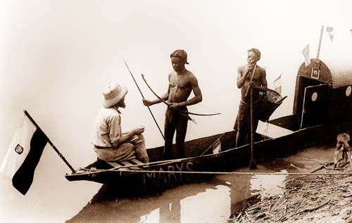 On "Maryś" (in Polish means: Mary) boat on an African river. The photo probably taken by Kazimierz Nowak (1897-1937, the author is on the photo; taken probably by a self-timer) during his trip through Africa - a Polish traveller, correspondent and photographer. Probably the first man in the world who crossed Africa alone from the North to the South and from the South to the North (from 1931 to 1936; on foot, by bicycle and canoe).